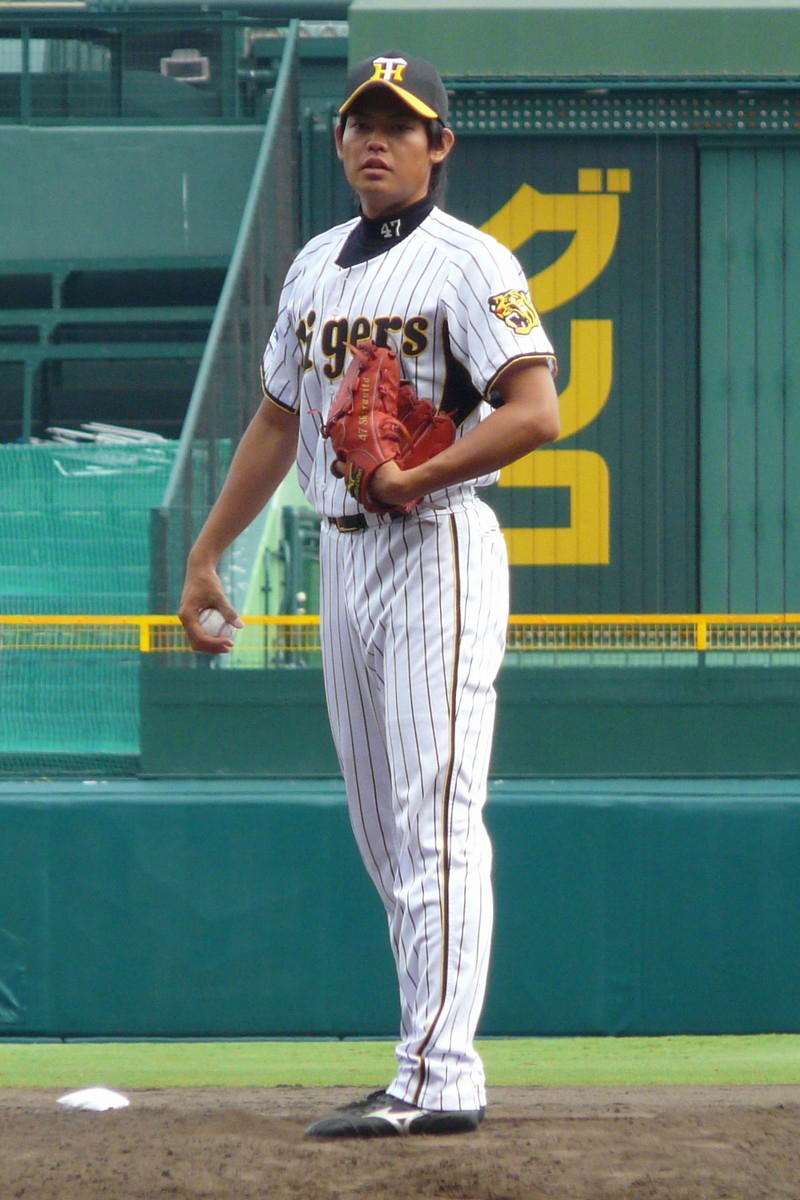 Hirokazu Shiranita, pitcher of the Hanshin Tigers, at Hanshin Koshien Stadium.